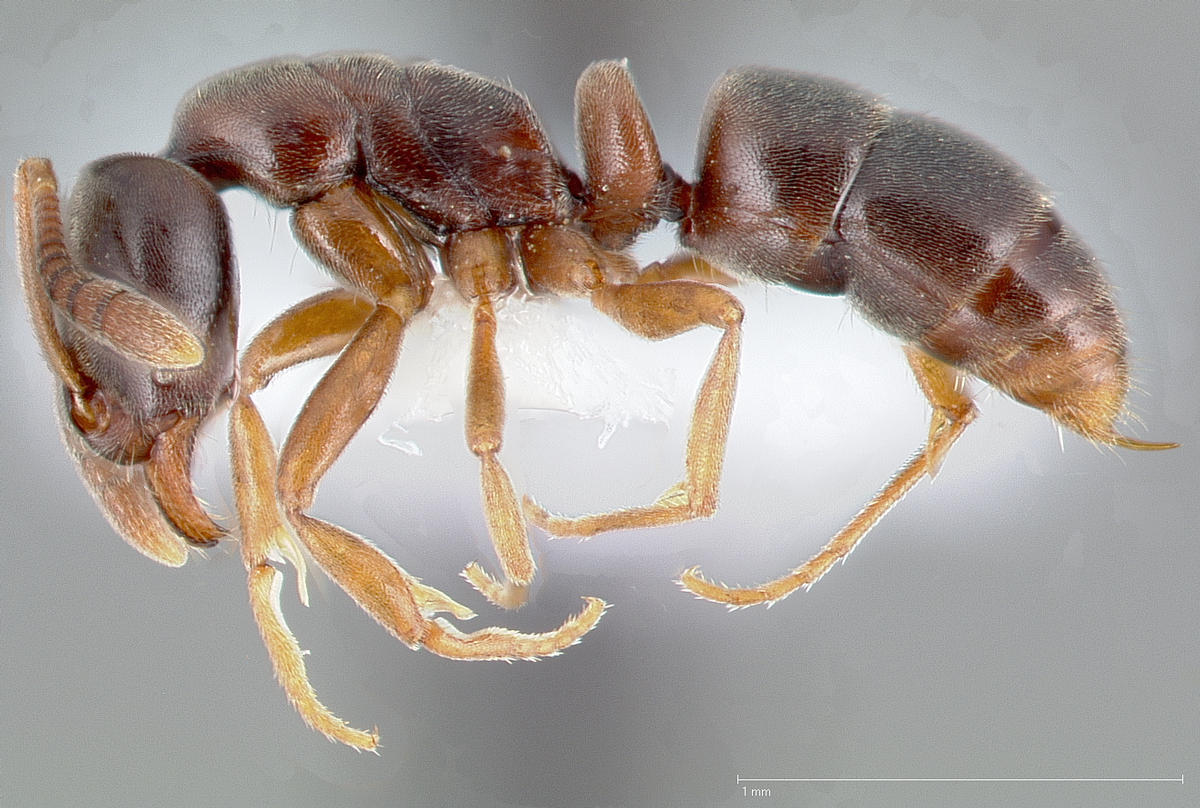 Profile view of ant Hypoponera opacior specimen casent0005436.